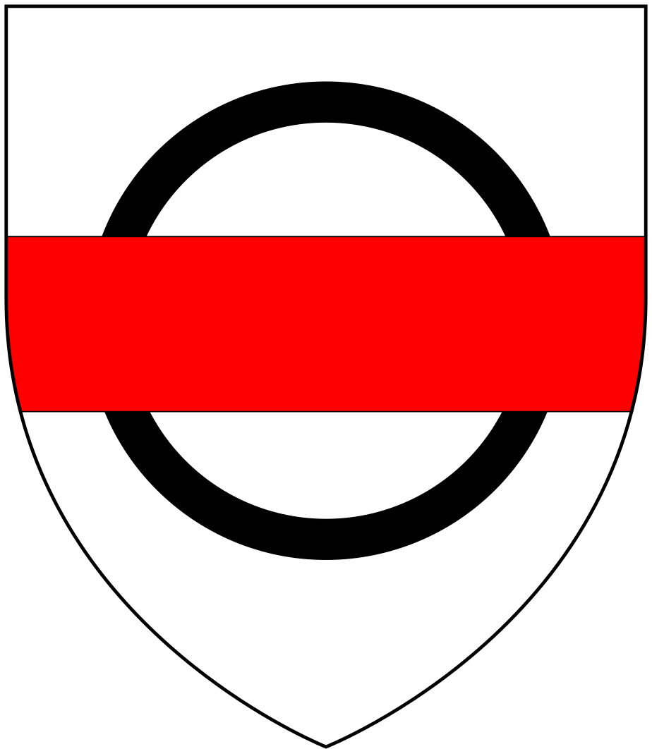 Arms of Bittlesgate of Knightstone in the parish of Ottery St Mary, Devon: Argent, an annulet sable over all a fess gules (Pole, Sir William (d.1635), Collections Towards a Description of the County of Devon, Sir John-William de la Pole (ed.), London, 1791, pp.148,470)